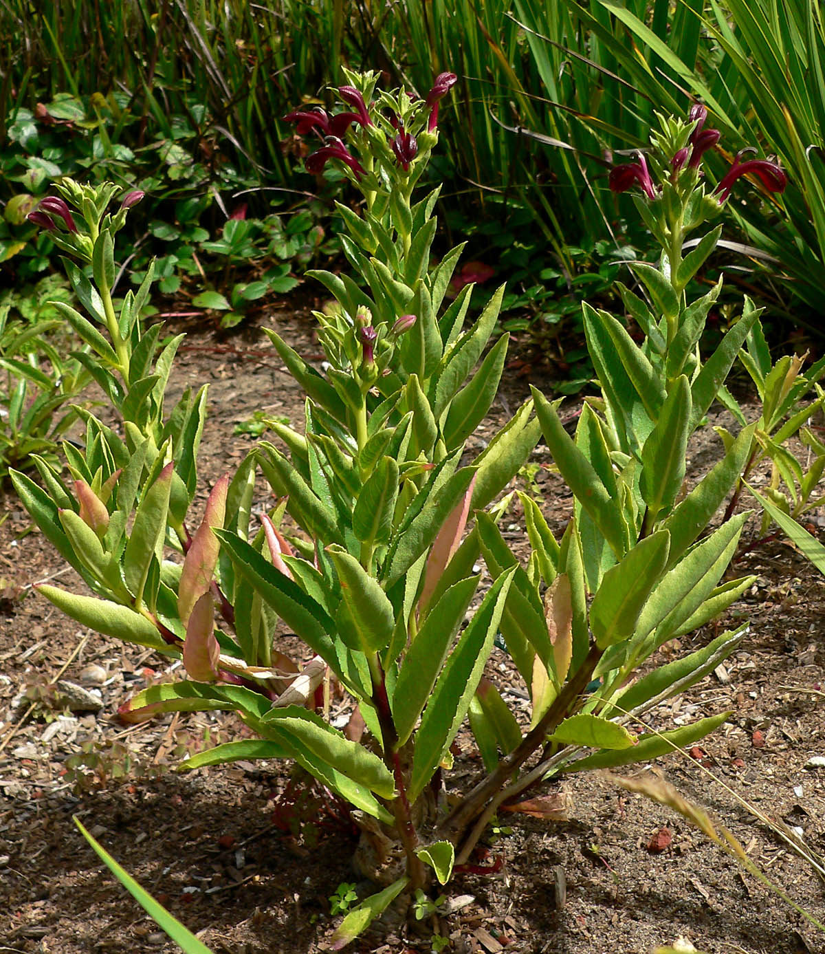 Photo of Lobelia polyphylla at the San Francisco Botanical Garden